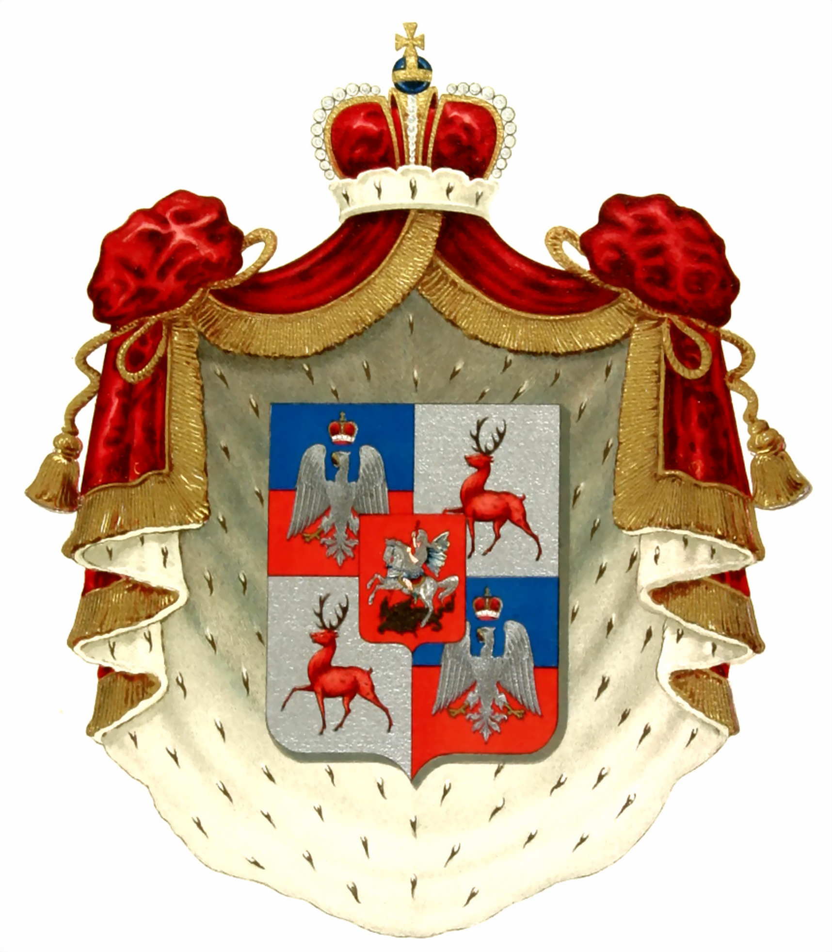 Coat of Arms of family Shujski